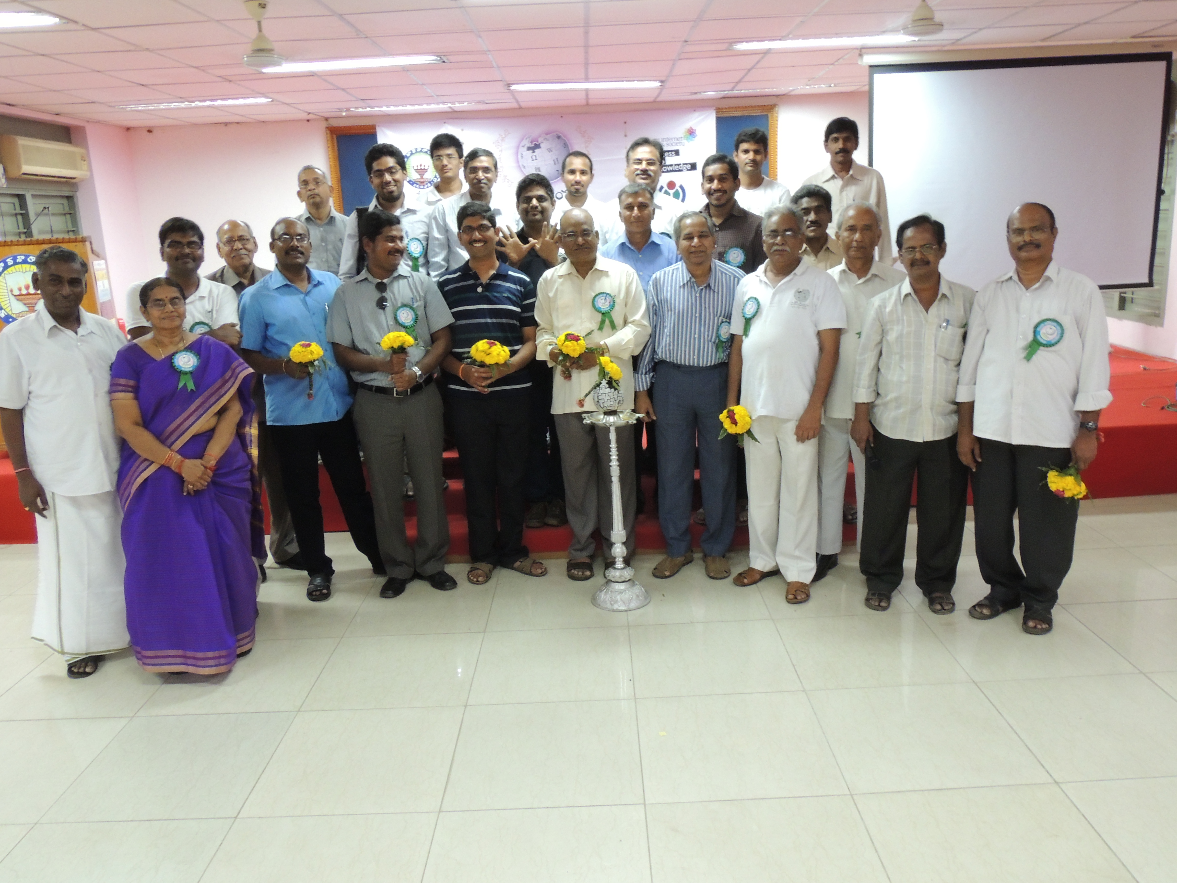 Telugu wikipedia 10 anniversary celebrations